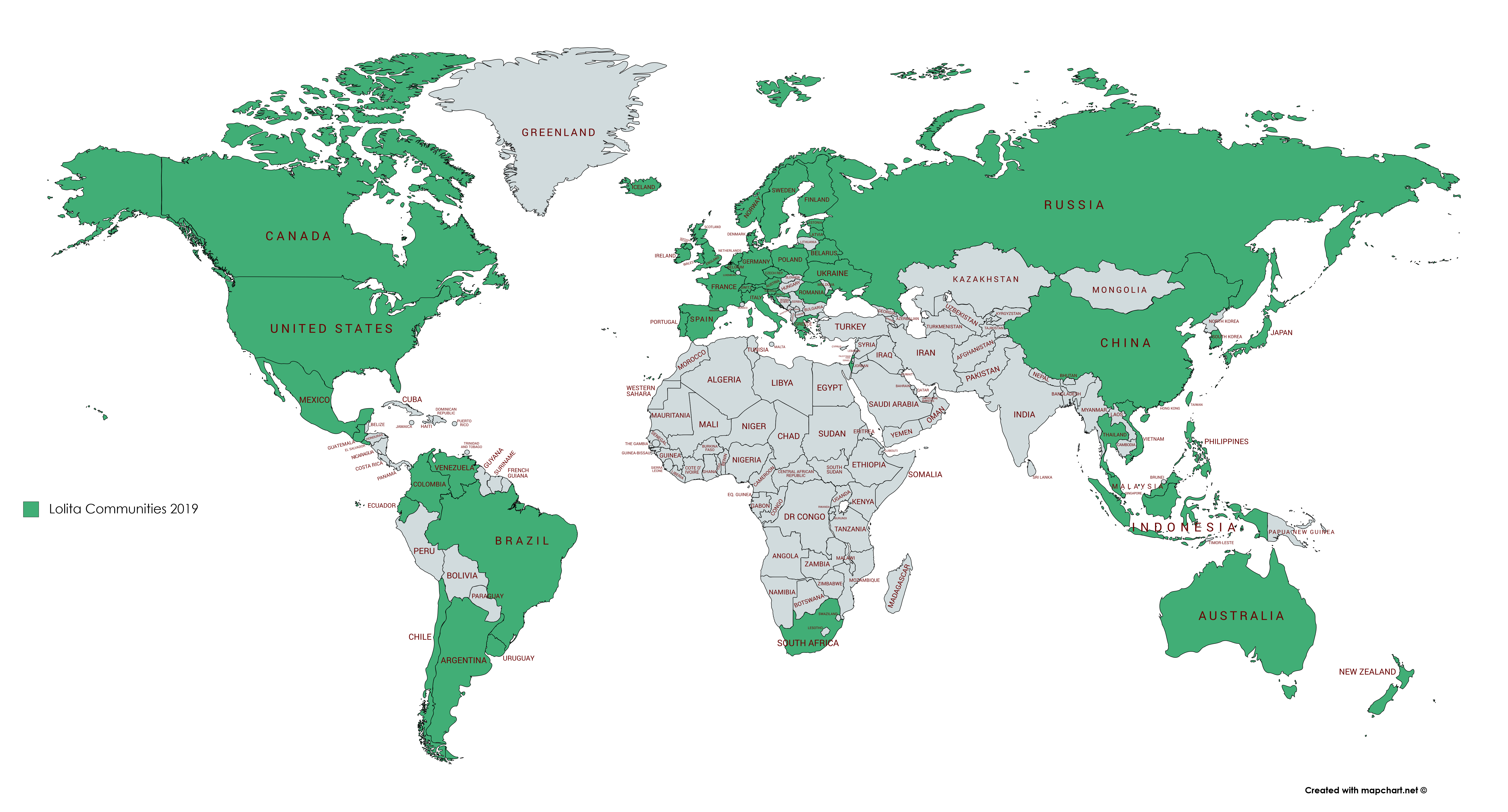 Lolita Fashion Spread in 2019 based on Livejournal, Literature, English News websites, some foreign language blogs and websites, partially FaceBook Groups, Vimeo videos and partially YouTube information sources.